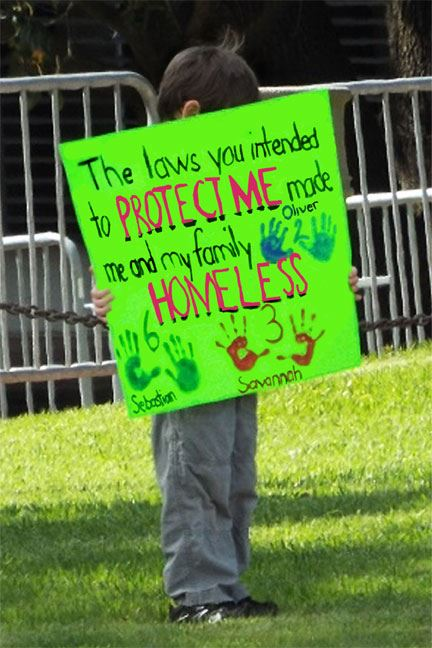 Child protesting against hardship caused by strict sex offender policies at Lauren Book's Rally in Tally, in Tallahassee